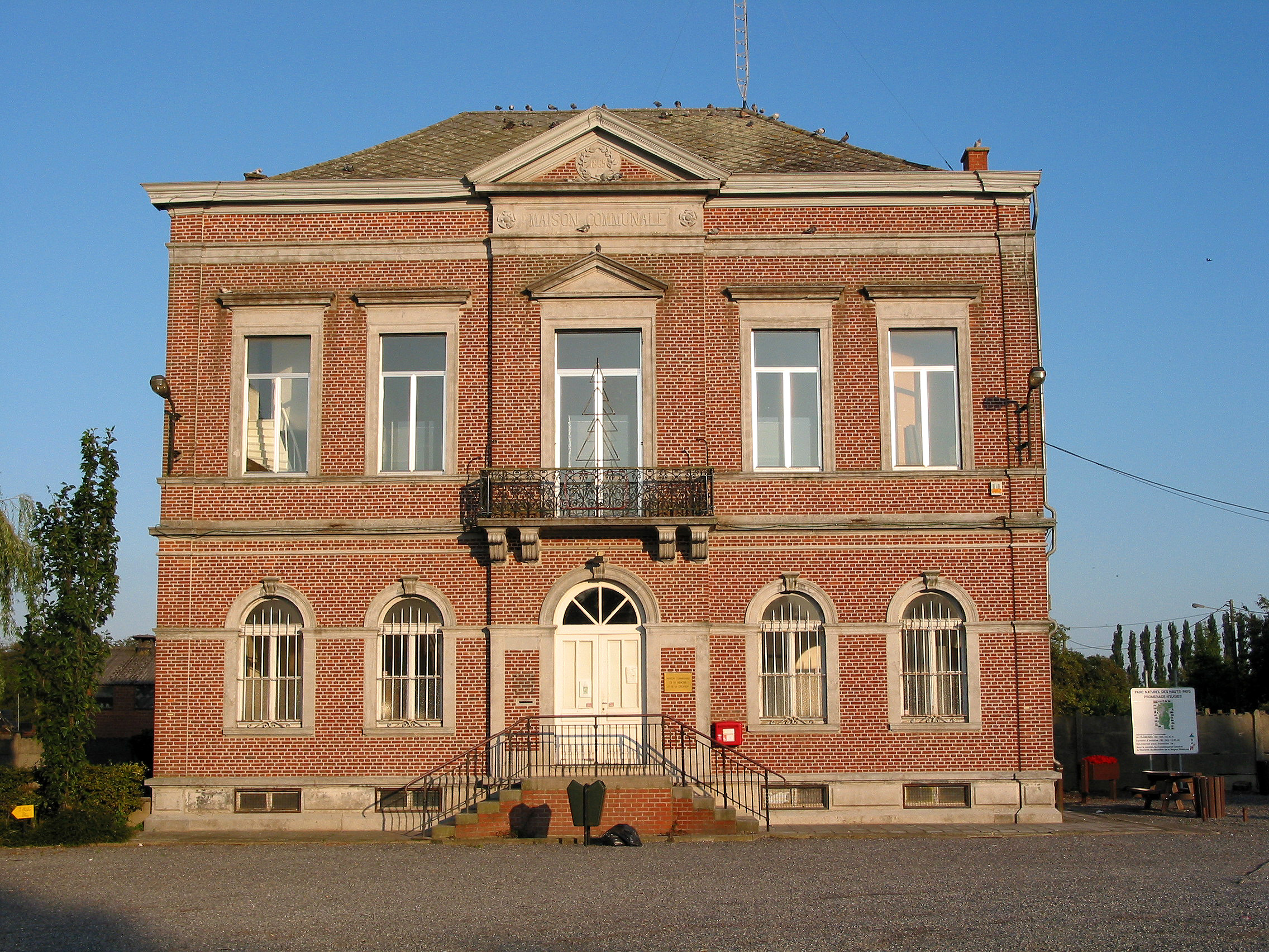 Eugies Belgium, the former town hall.